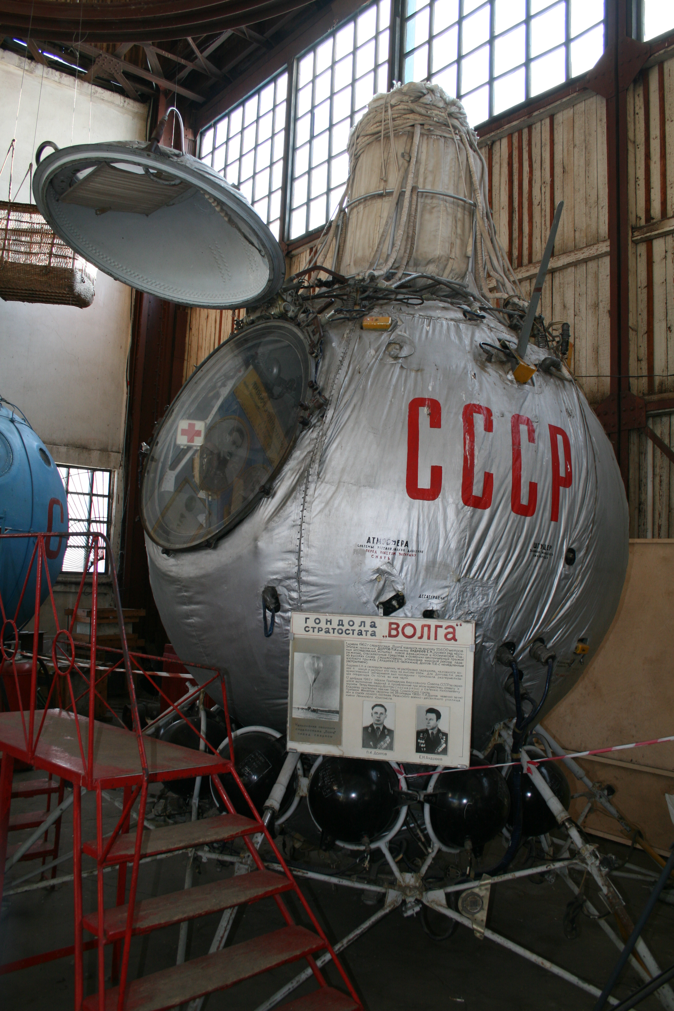 E. Andreev & P. Dolgov jumped from it in '62 from over 25 km. Dolgov died.